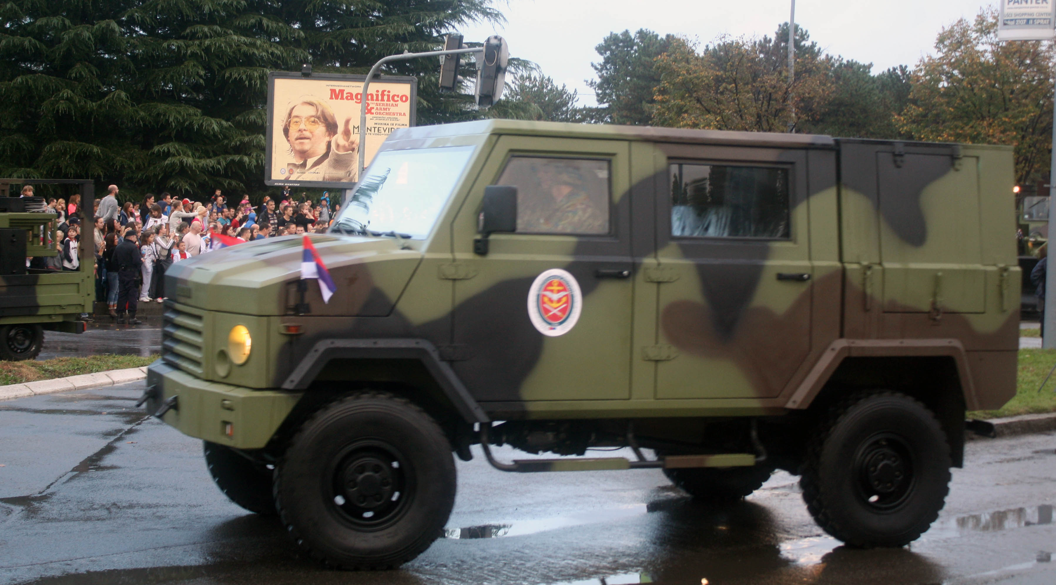 Serbian Army Zastava NTV truck, project in development by Military technical institute during the military parade "March of the Victorious" on the occasion of marking 100 years since the beginning of the Great War and 70 years since the liberation of the capital in the Second World War.